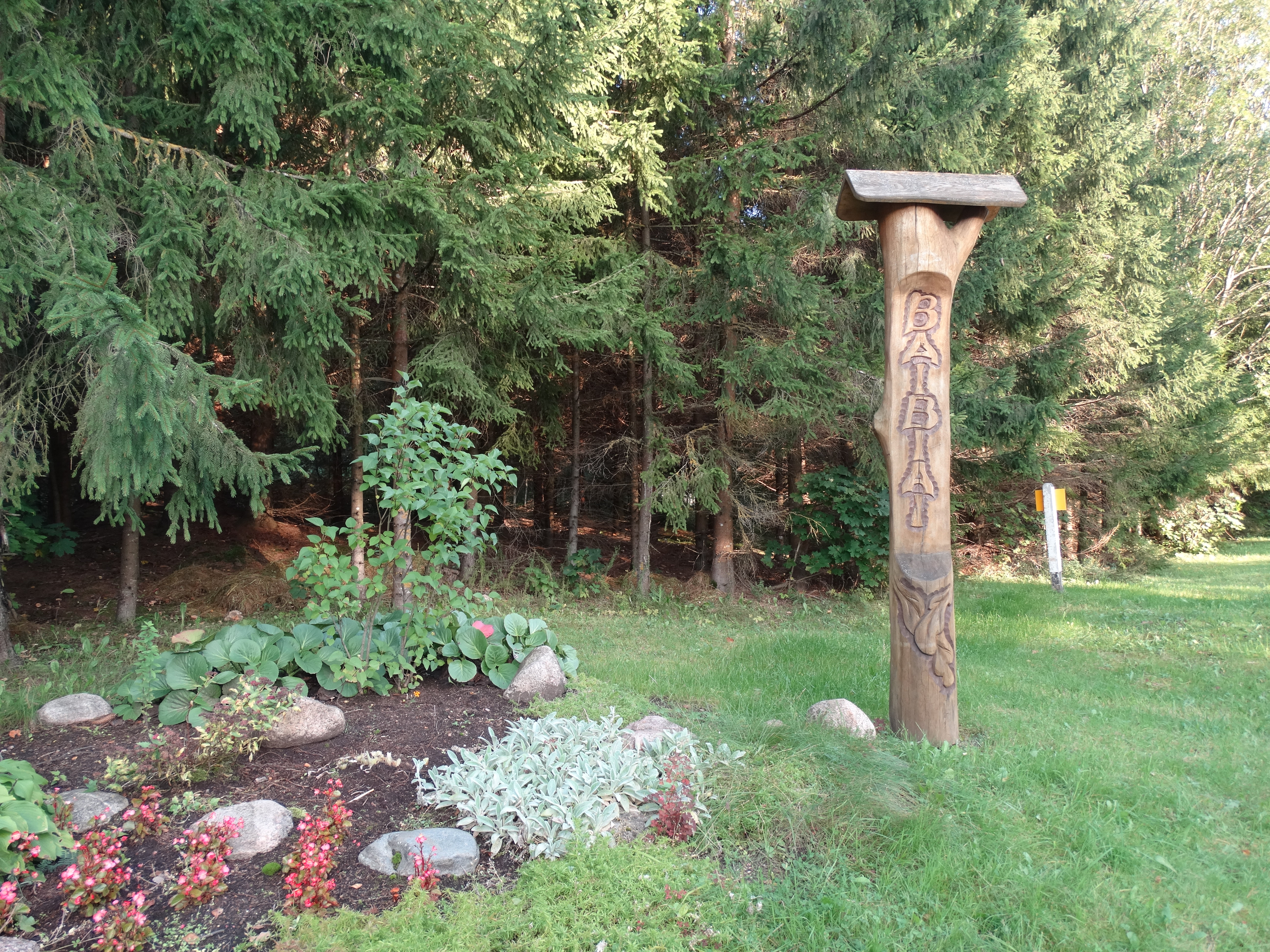 Baibiai, Zarasai district, Lithuania